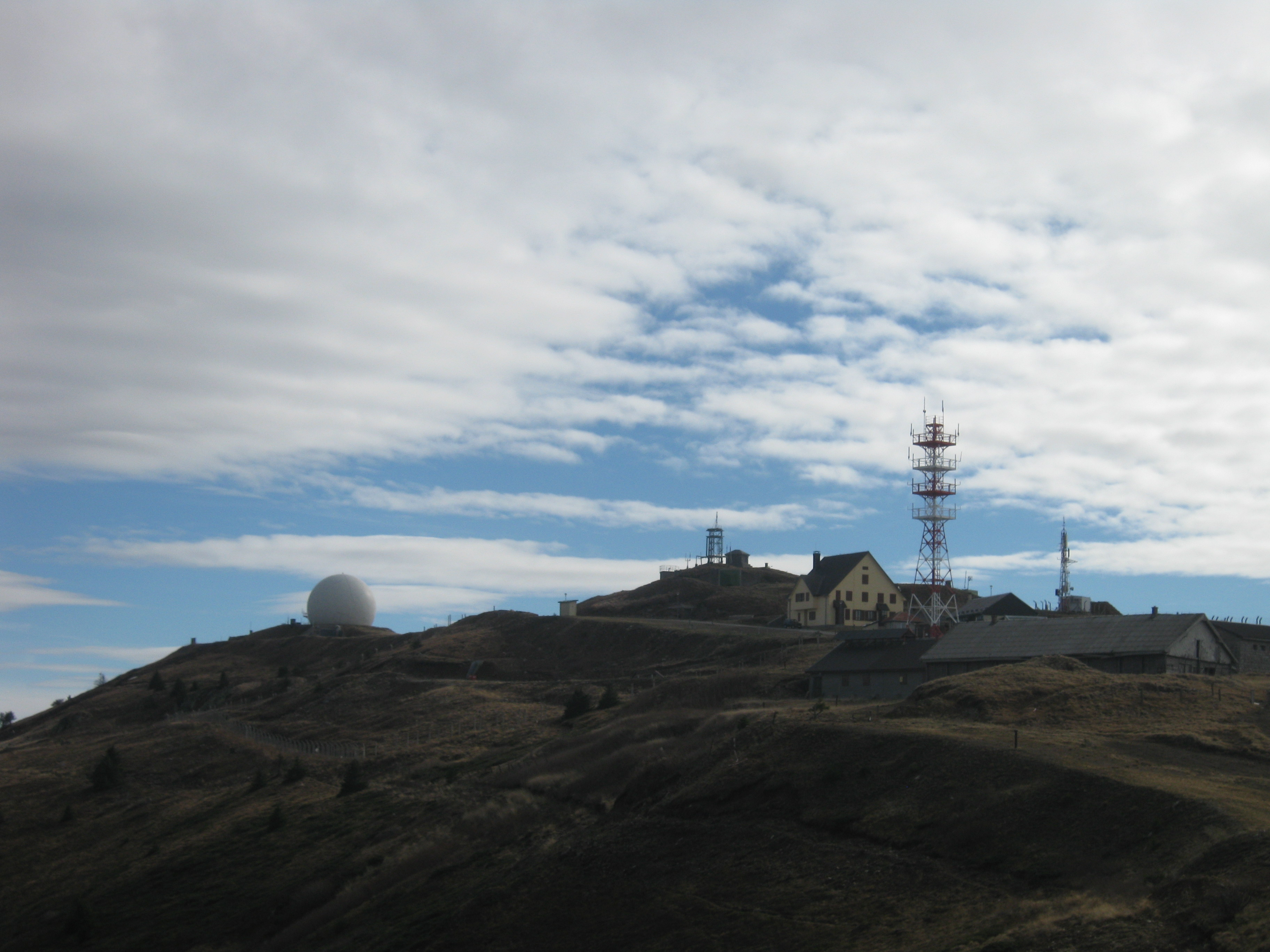 Radar Installation on Pančić peak